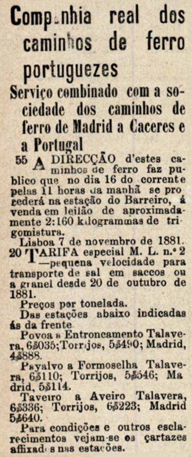 Public announcement of the Companhia Real dos Caminhos de Ferro Portugueses (Royal Company of the Portuguese Railways), in combination with the Sociedade dos Caminhos de Ferro de Madrid a Caceres e Portugal (Compañía de los Ferrocarriles de Madrid a Cáceres y Portugal - Company of the Railway from Madrid to Cáceres and Portugal), for a auction of wheatmixture and a tariff for the transport of salt. This image was published on the Diario Illustrado newspaper No. 3061, of 18th November 1881, and scanned by the Biblioteca Nacional de Portugal.